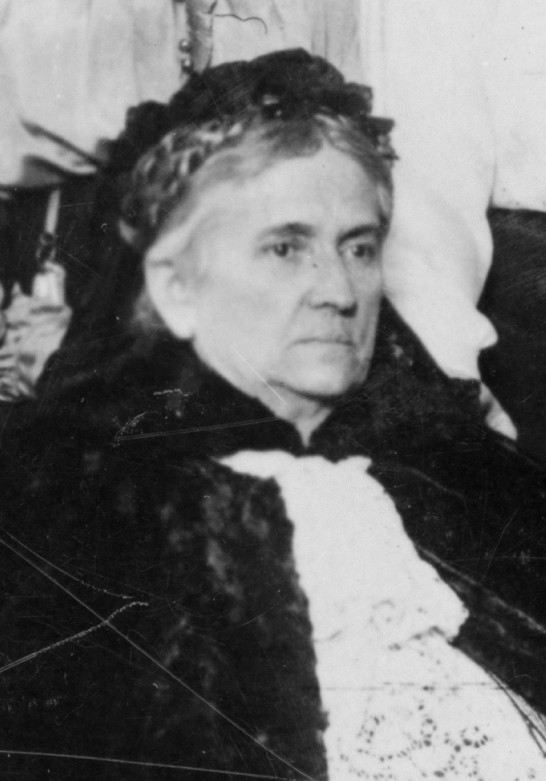 Queen Milena, Queen Consort of Montenegro